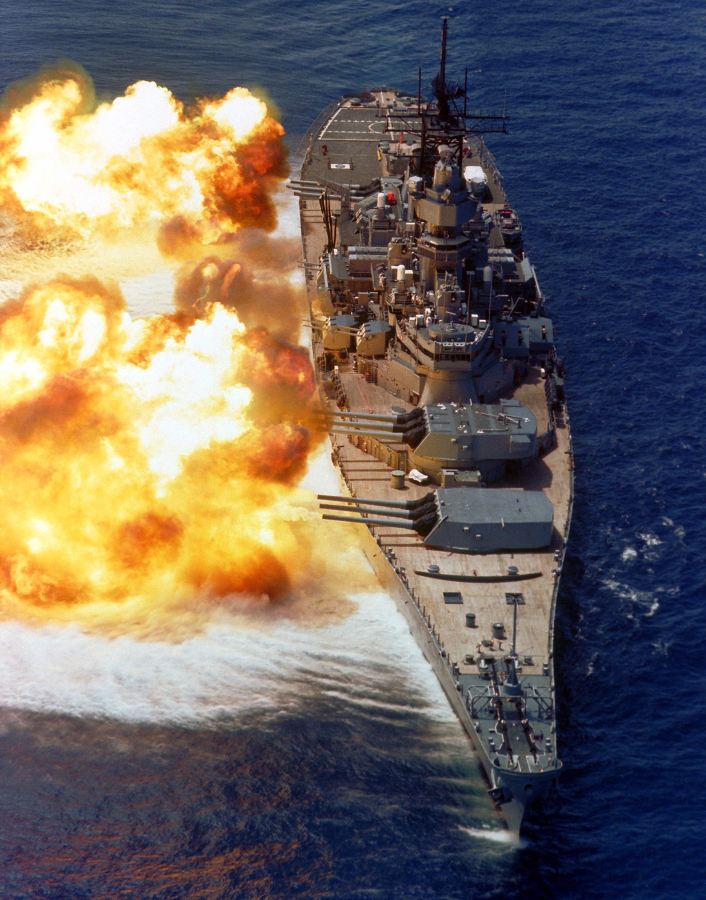 A bow view of the battleship USS IOWA (BB-61) firing its Mark 7 16-inch/50-caliber guns off the starboard side during a fire power demonstration.